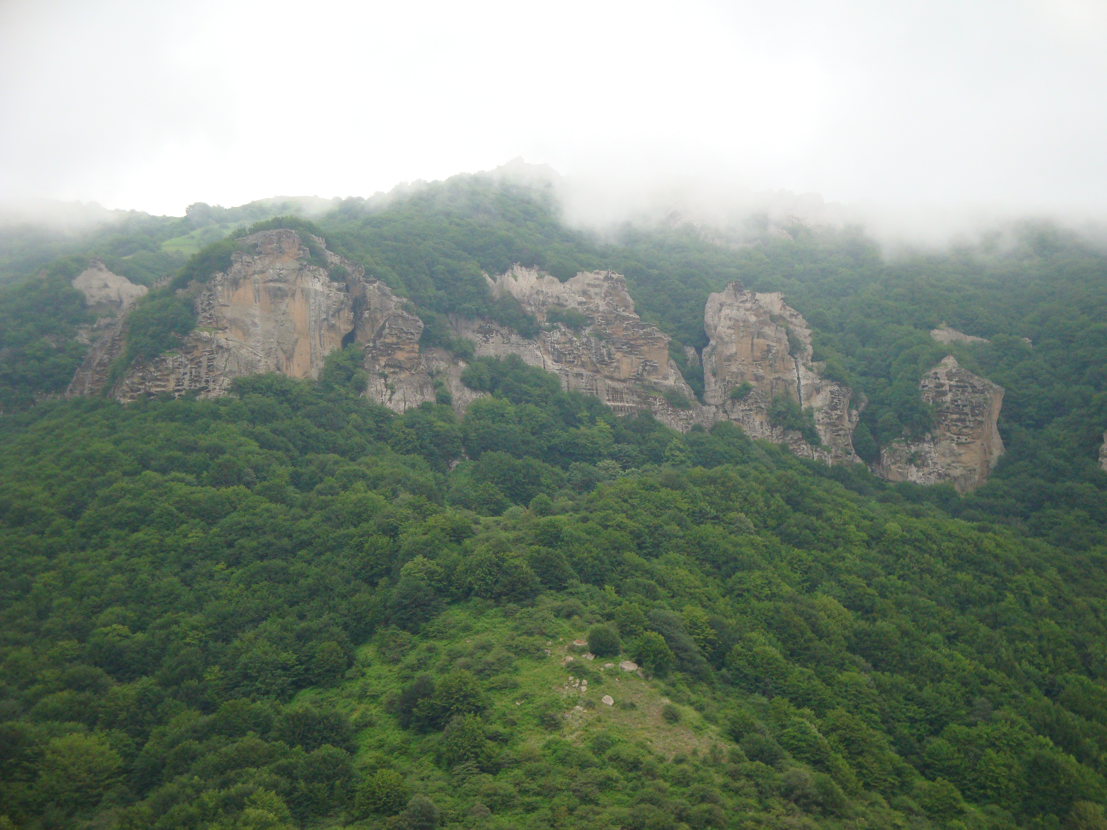 Gardaneye Heiran, Gilan Province of Persia (Iran), 2011. Photo by Abbas Afsharibakhsh / Persian Dutch Network